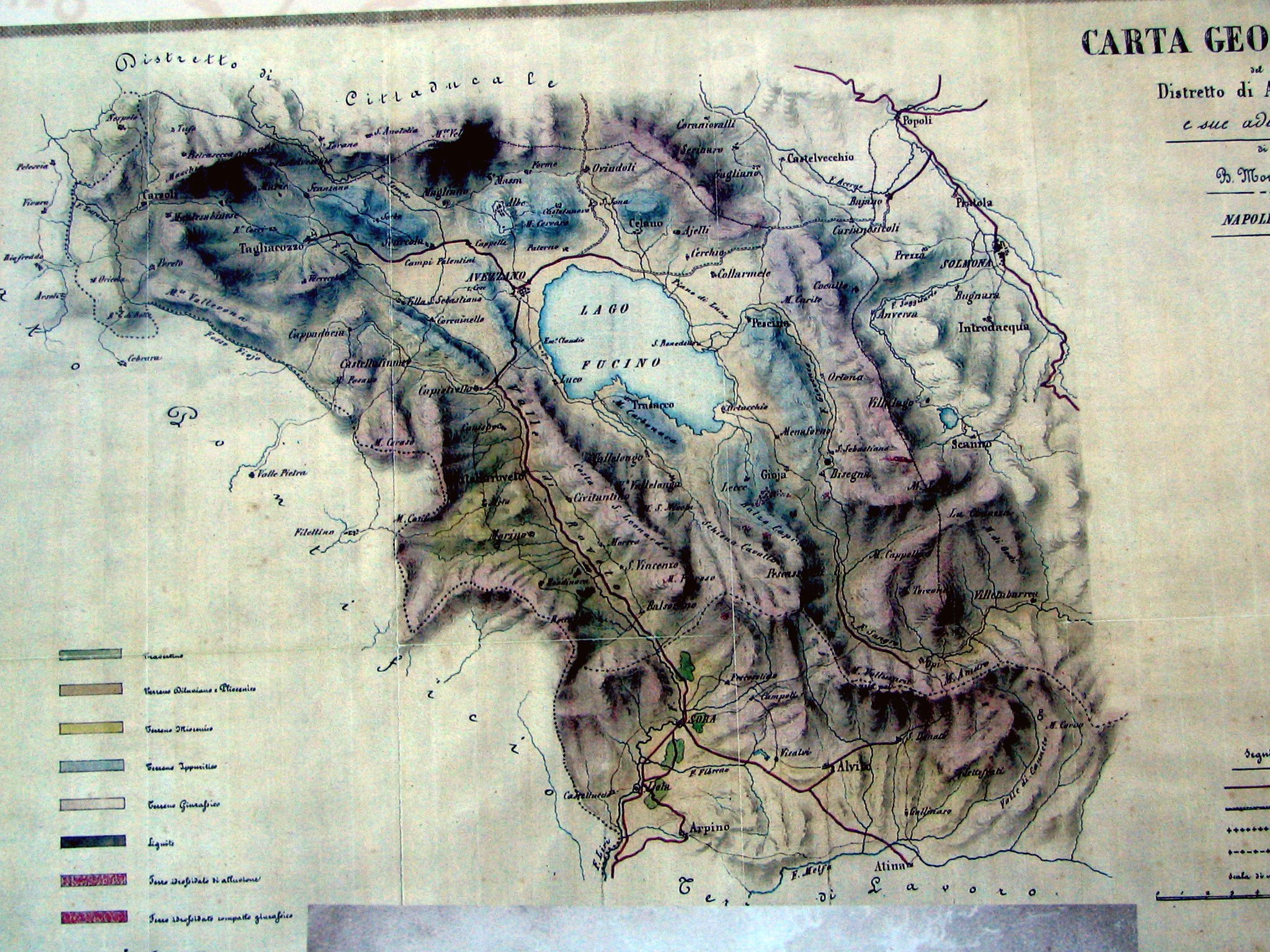 Photograph of an old map of unknown provenance, showing Lake Fucino prior to draining.